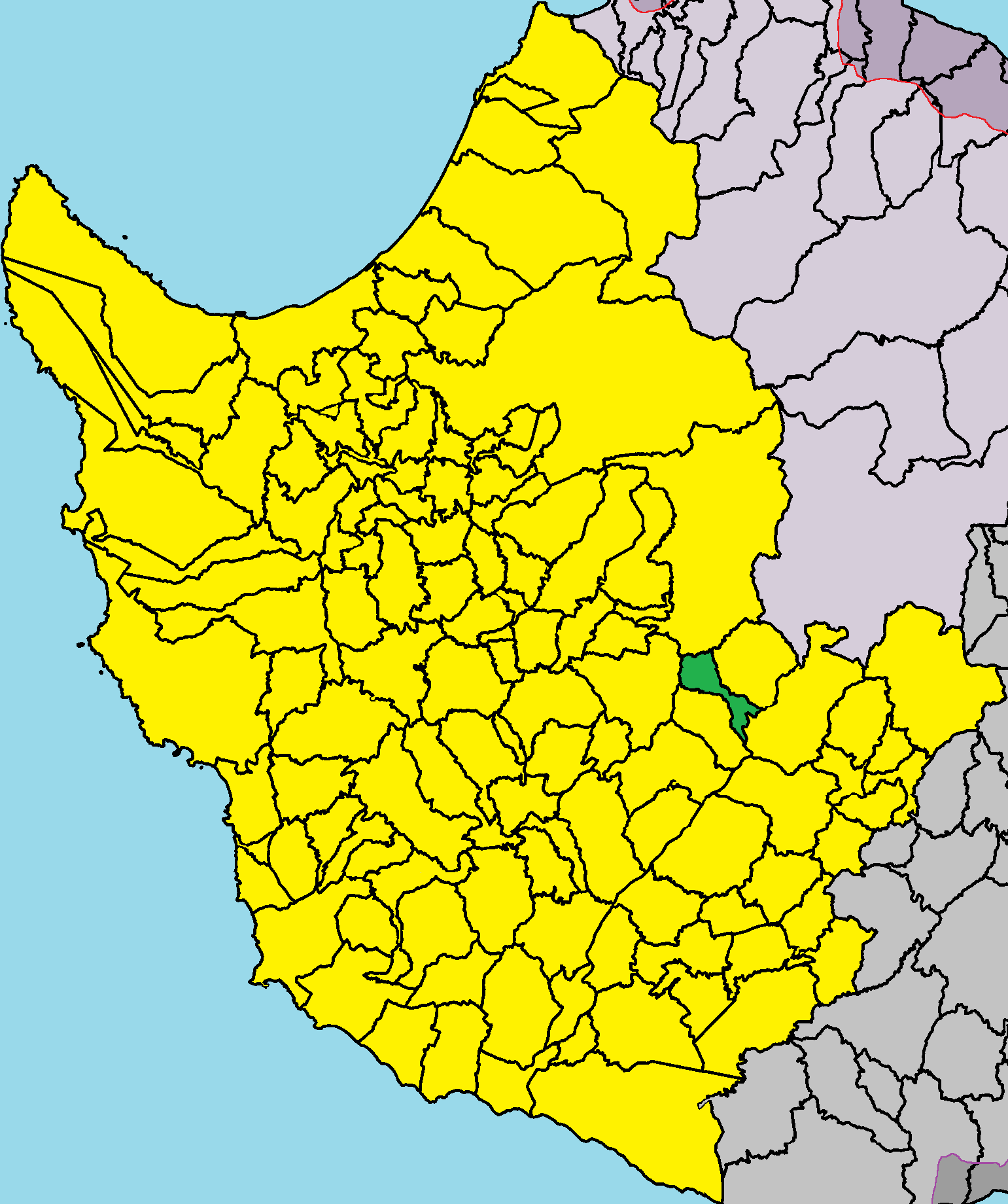 Kilinia in Paphos District.